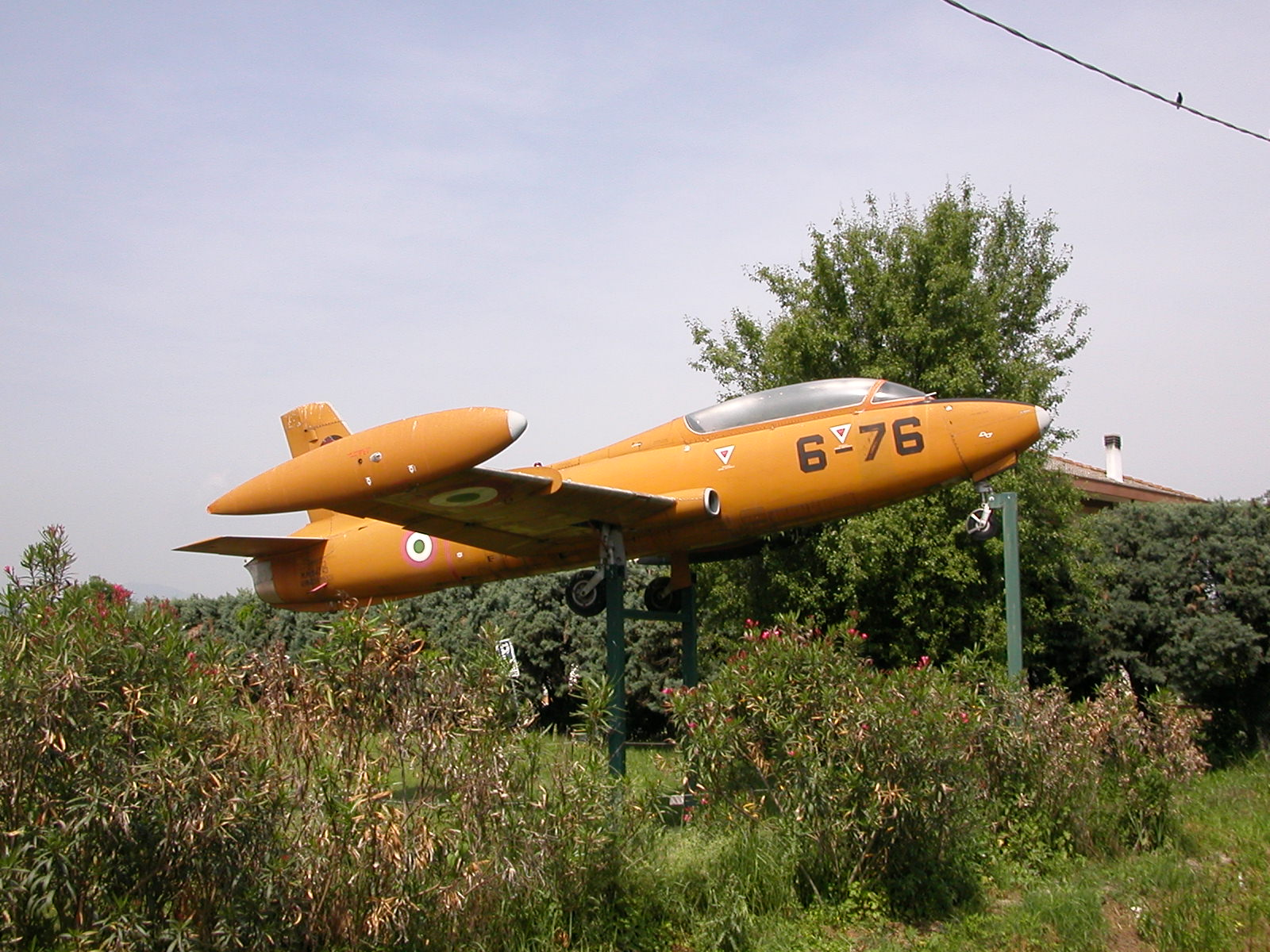 Aermacchi MB-326, M.M. 54243, 6-76, gate guardian at Air and Space Museum of San Pelagio, Due Carrare, Padua.